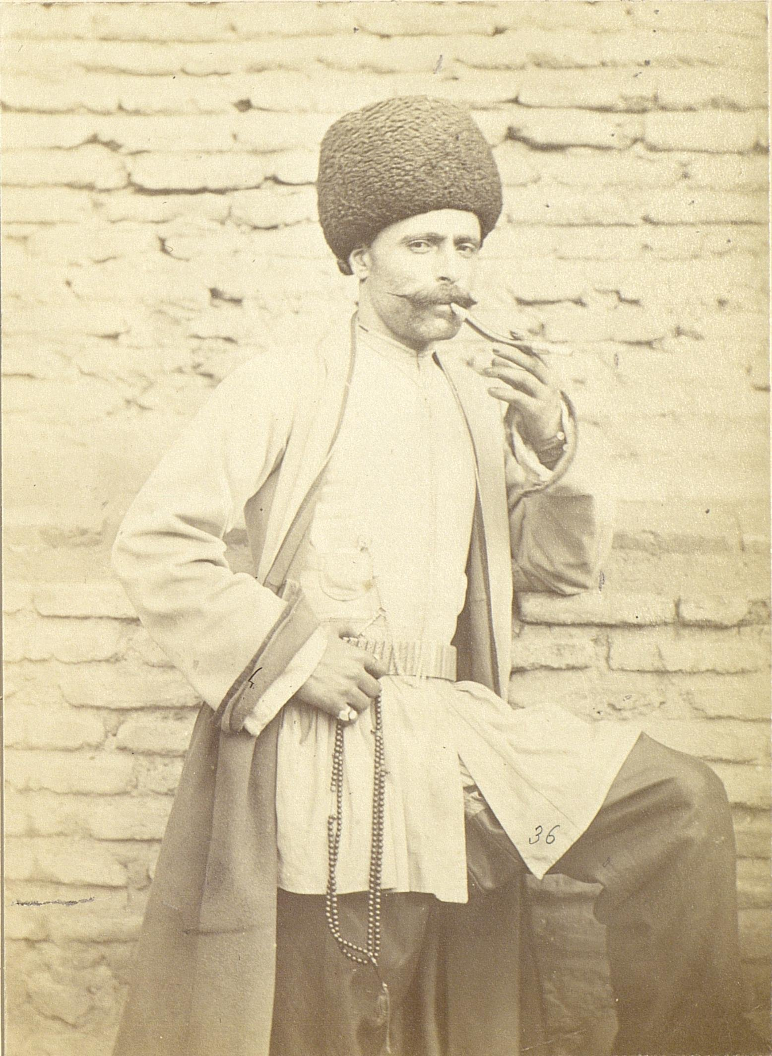 Azerbaijani man portret